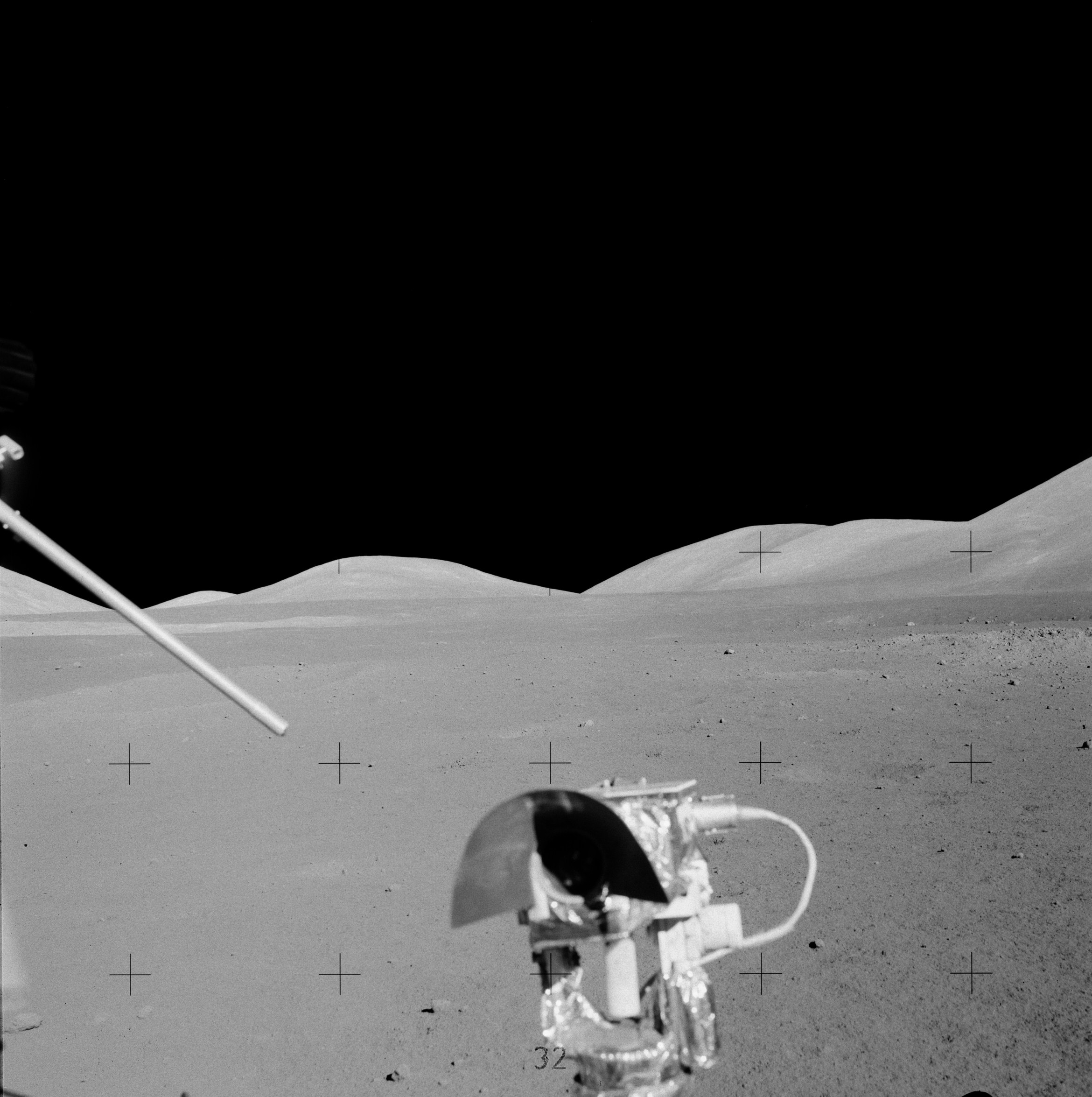 Traverse photo showing part of Horatio (right), Taurus–Littrow valley, the moon. The Lunar Rover's TV camera is in the foreground. Facing west.